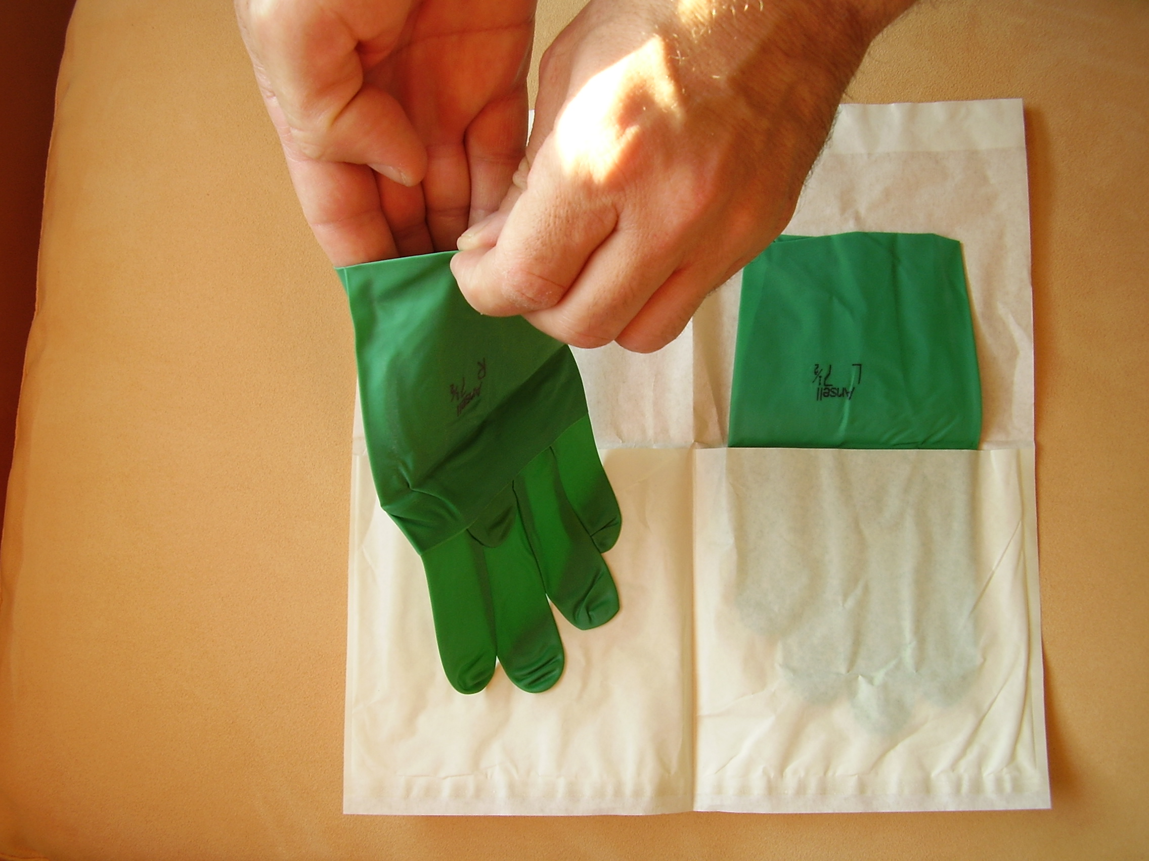 Disposable gloves; surgical gloves; chirurgische Handschuhe; steril; Latexhandschuhe